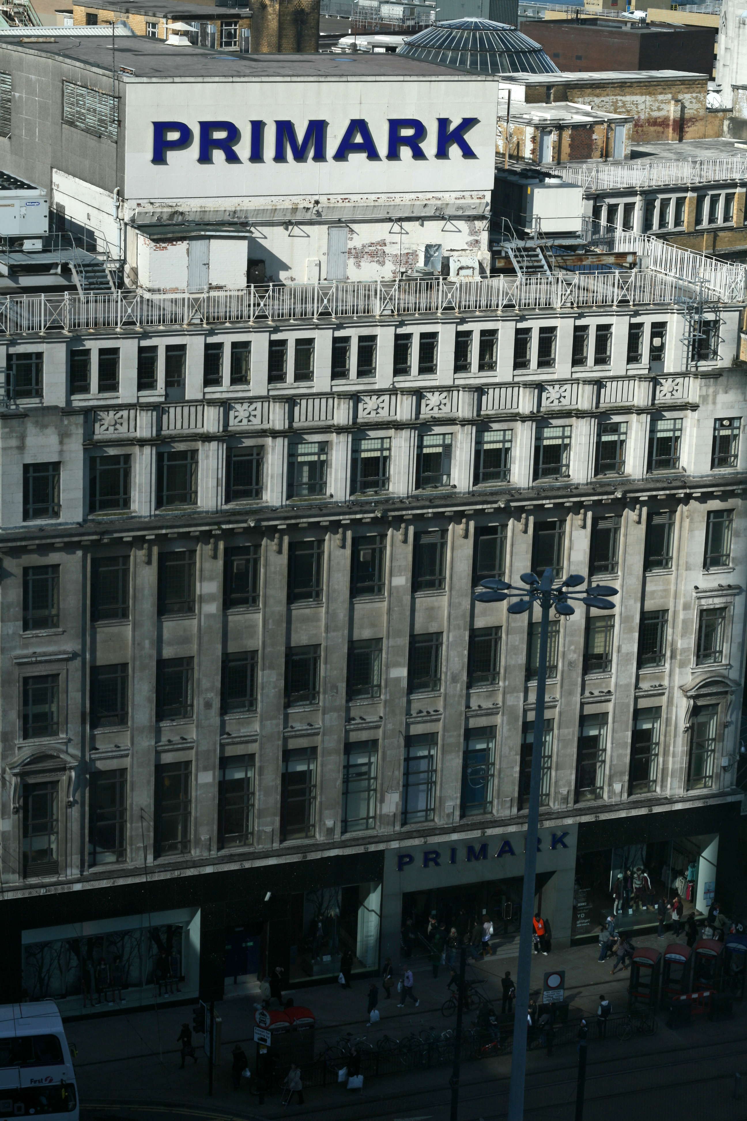 The former Lewis's building Manchester, England. Now Primark.